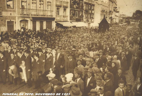 Funeral of Portuguese Footballer Pépe Soares